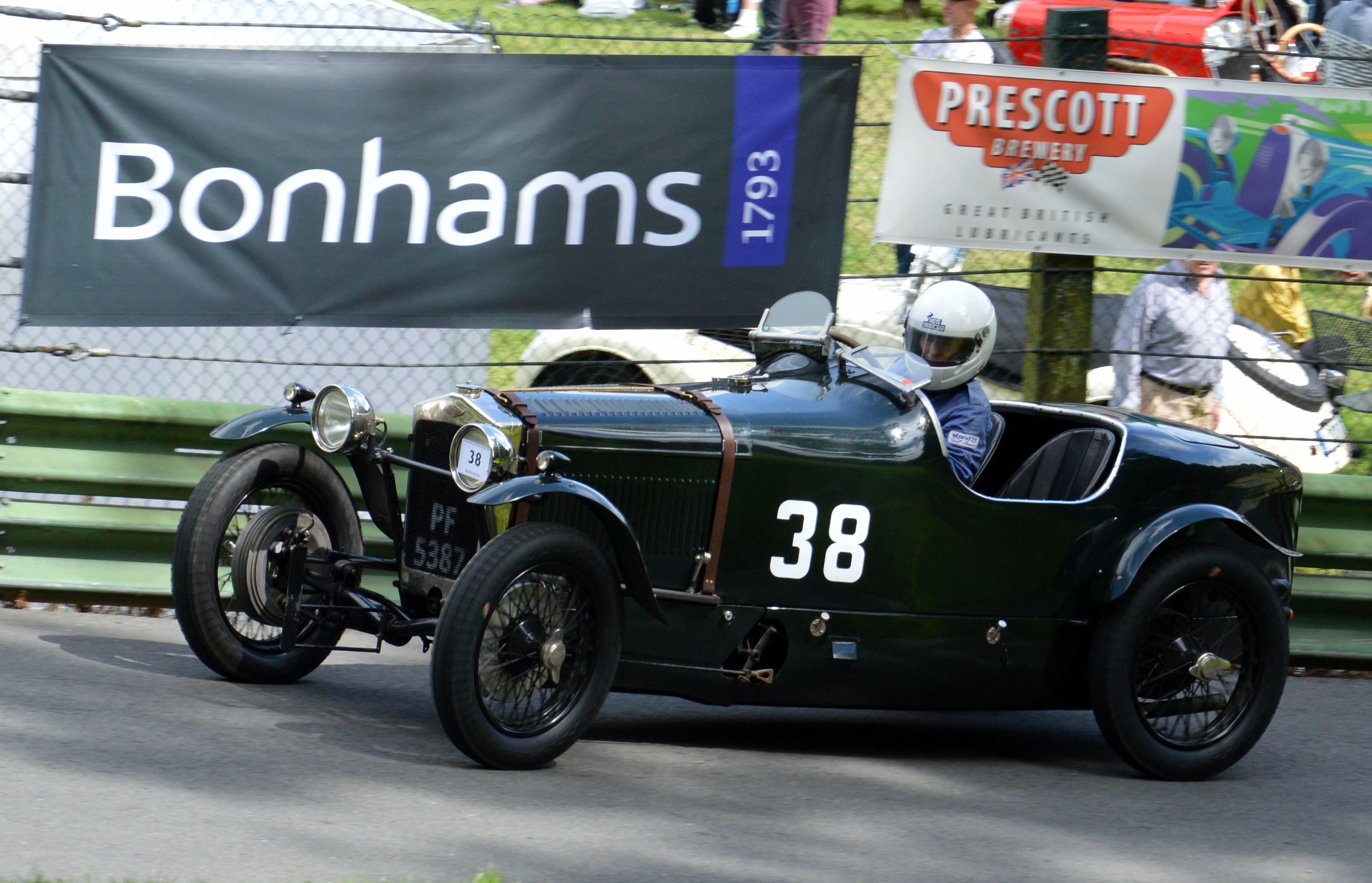 Miss Annabel Jones drives KT Lee's 1496cc 1926/29 Frazer Nash Bolougne Vitesse up the hill at the VSCC Prescott Vintage Hill Climb.